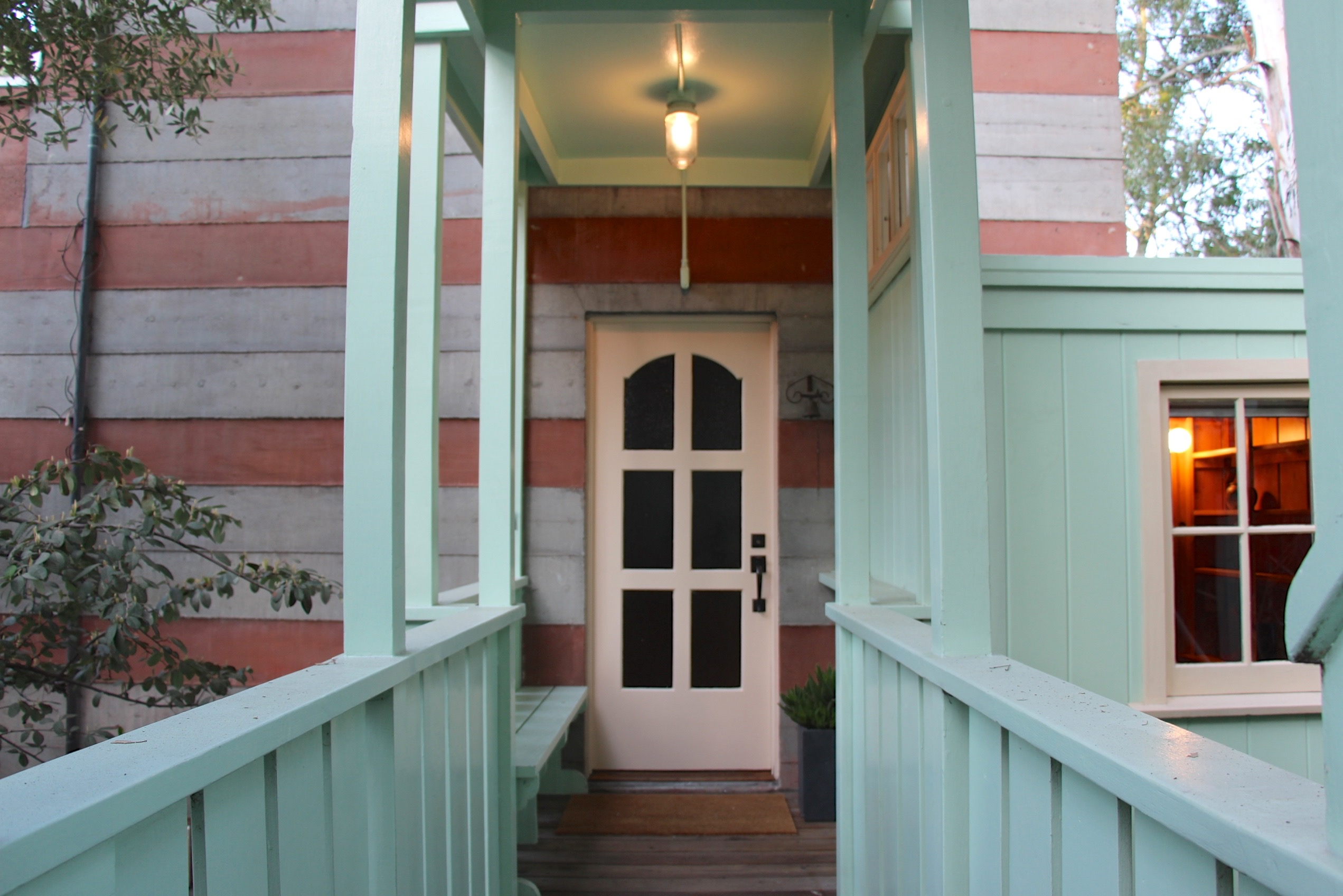 View of the front door to the Sala House.